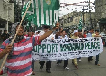 Peace activists demand resumption of Peace